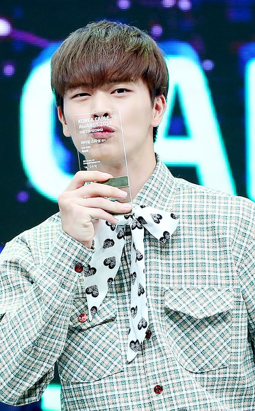 Yook Sung-jae at Cable TV Awards in March 2017